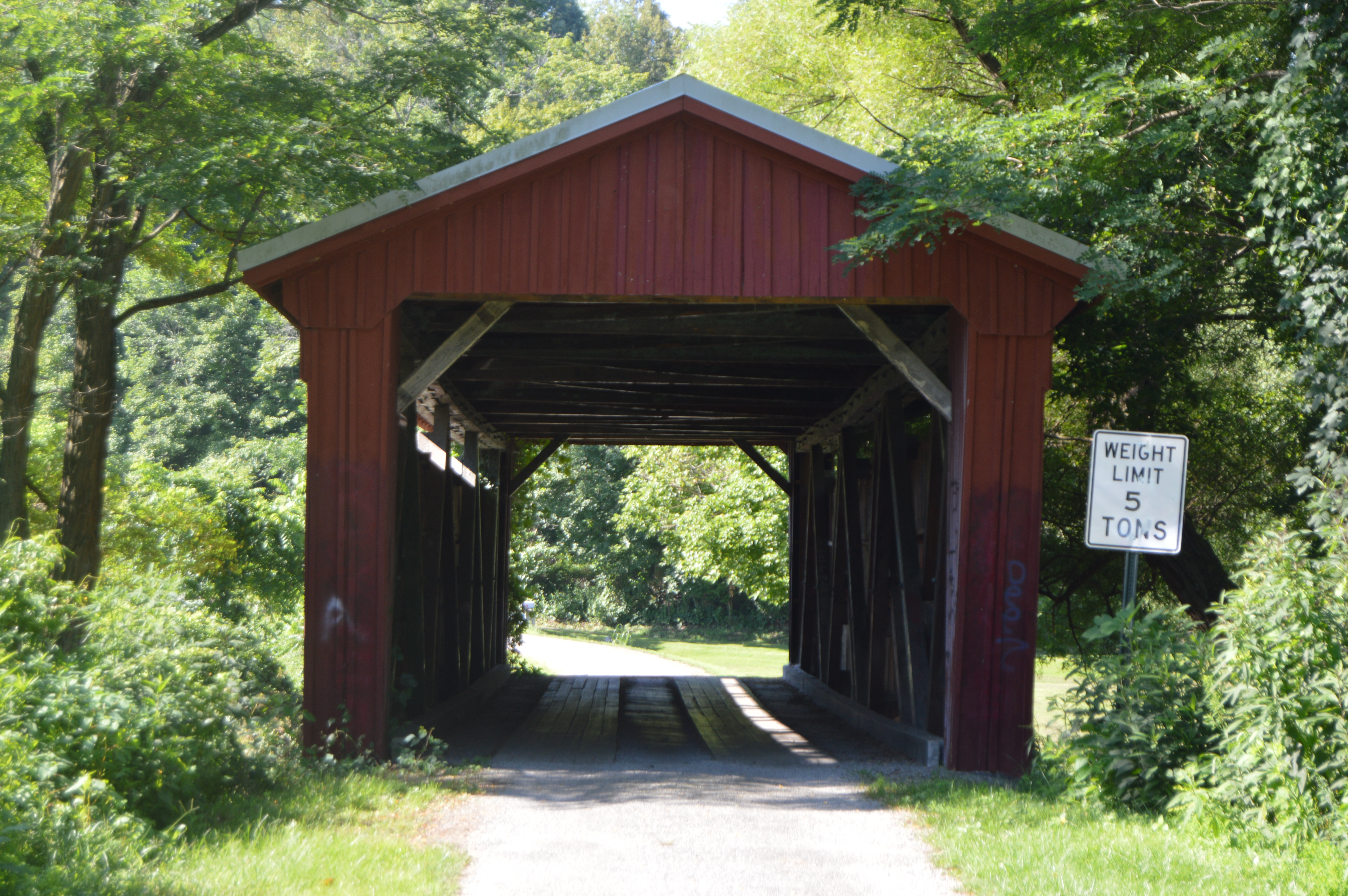 Northern portal of the Byer Covered Bridge, which carries Byer Winters Road over Pigeon Creek in Washington Township, Jackson County, Ohio, United States. Built in 1870, it is listed on the National Register of Historic Places.